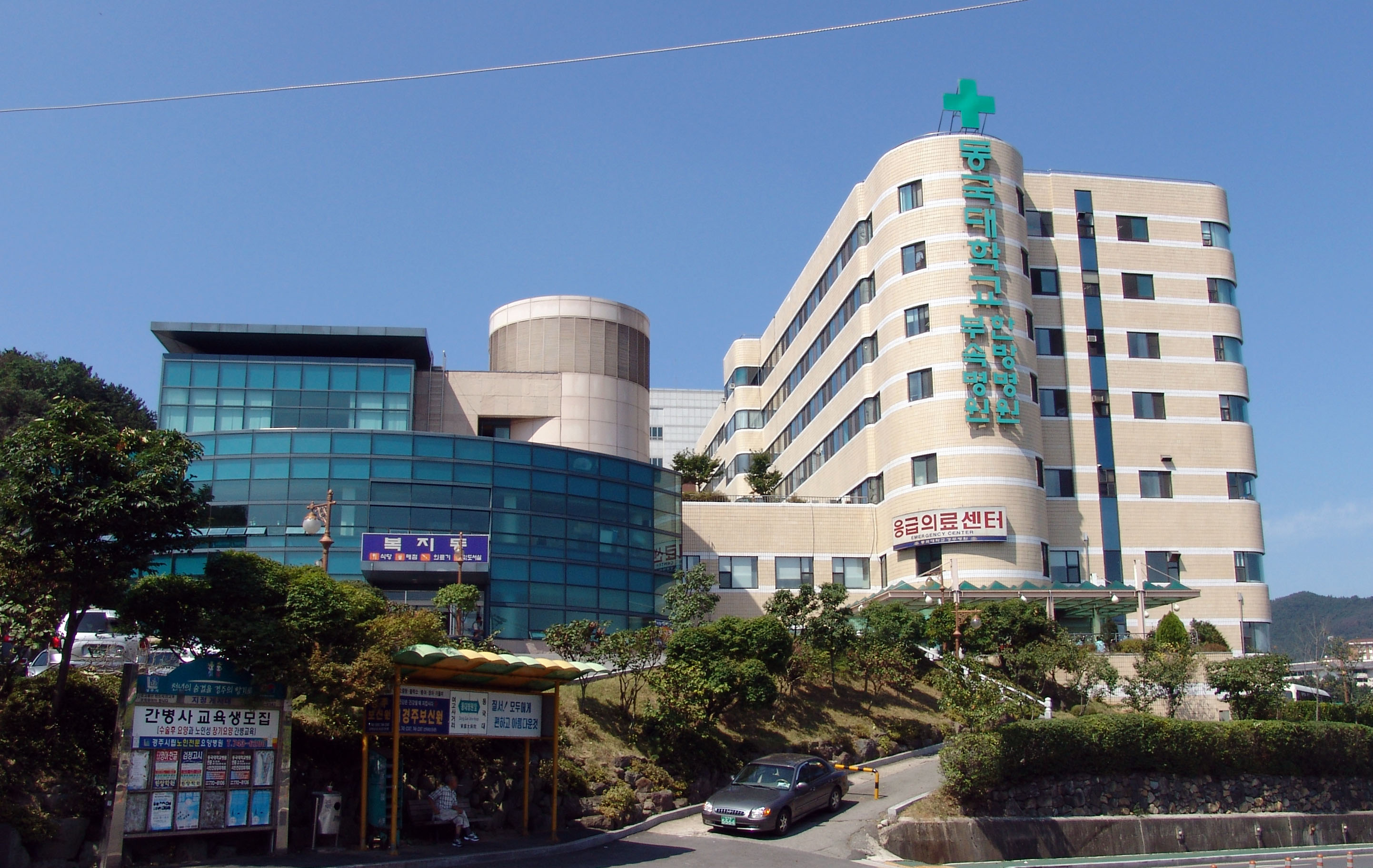 Dongguk University Gyeongju Hospital in Gyeongju, South Korea.